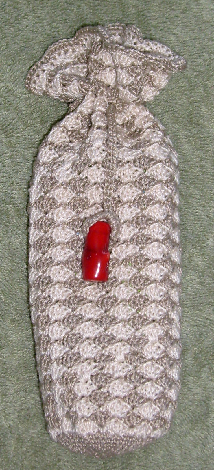 Crochet drawstring pouch made from shell stitch in two colors (ecru, natural). No. 10 mercerized cotton with coral closure. Original design.